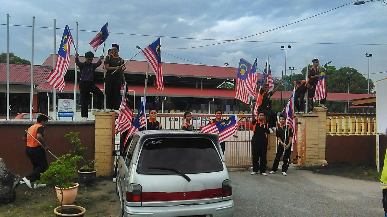 Pemasangan bendera